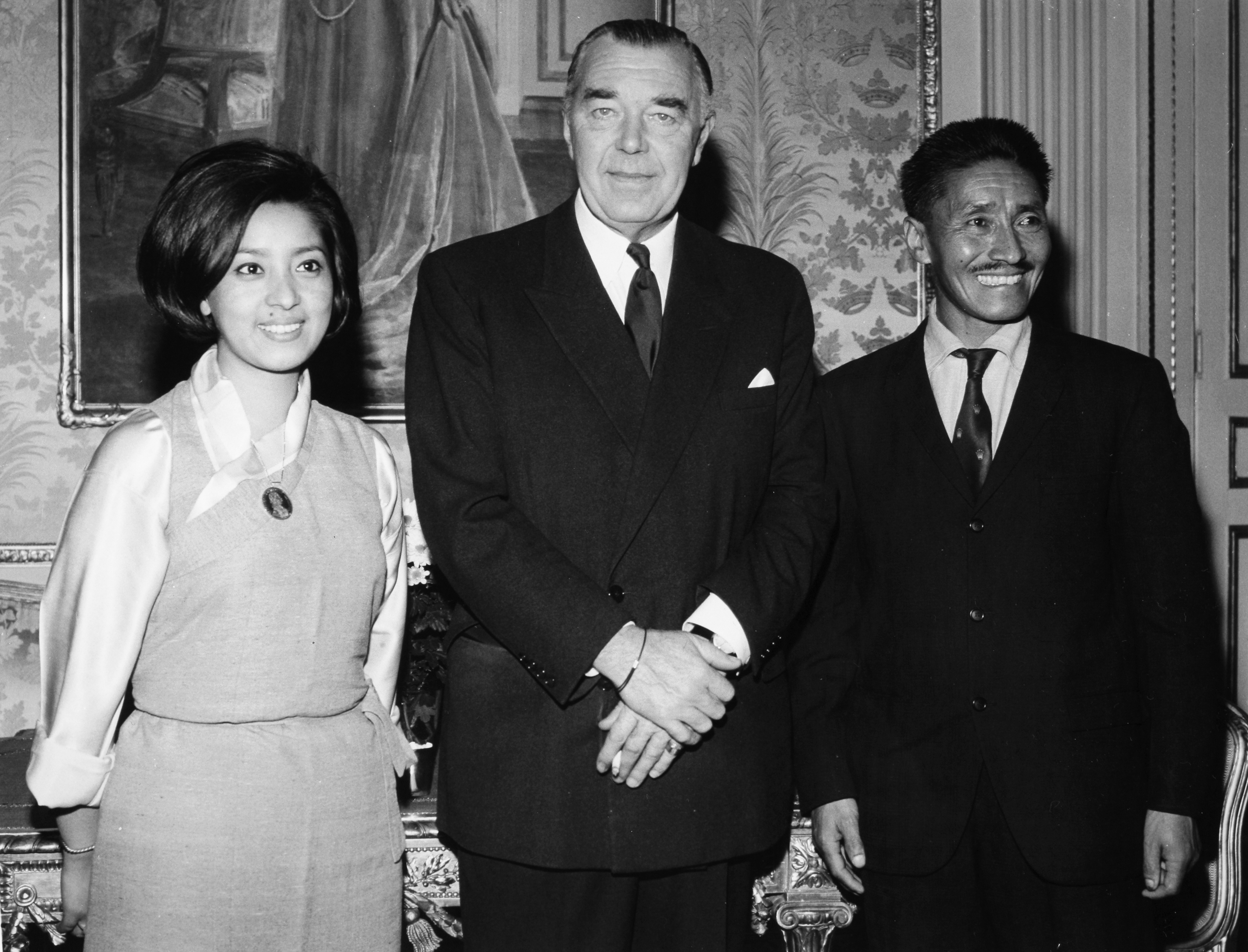 SAS Inauguration of SAS Trans-Asian Express, From left: Nime Norgay, daughter of Sherpa Tenzing Norgay, Prince Bertil and Sherpa Tenzing Norgay in Stockholm